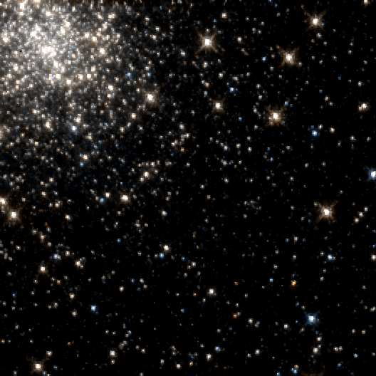 Color rendering is done by by Aladin-software (2000A&AS..143...33B.)